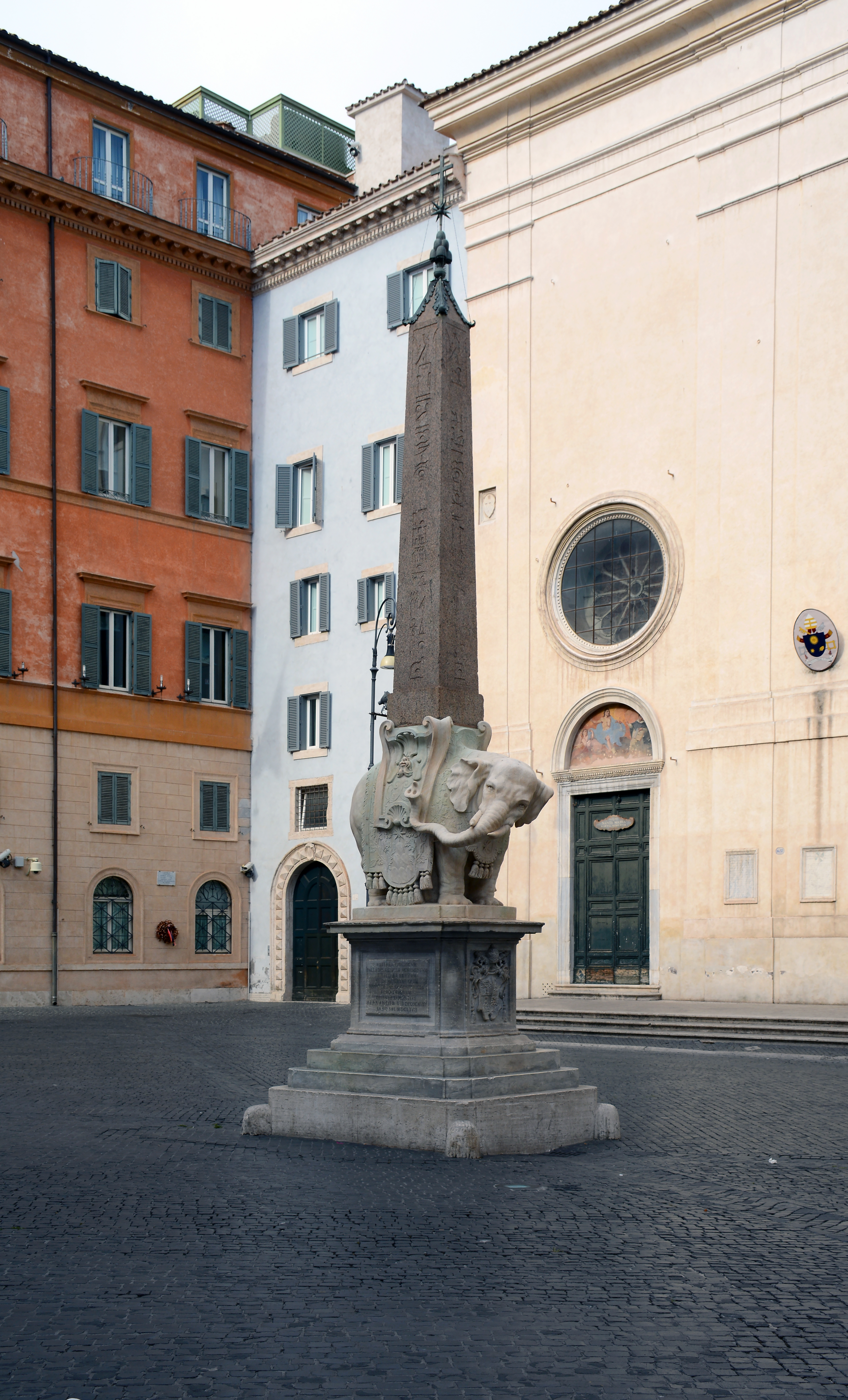 Minerveo obelisk in front of Santa Maria sopra Minerva